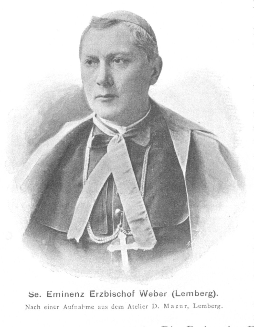 Portrait of Joseph Weber (1846-1918), bishop of Lemberg, Galicia (now Lviv in Ukraine)